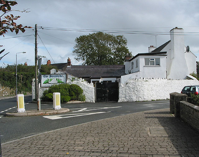 Minor road junction, Jameston